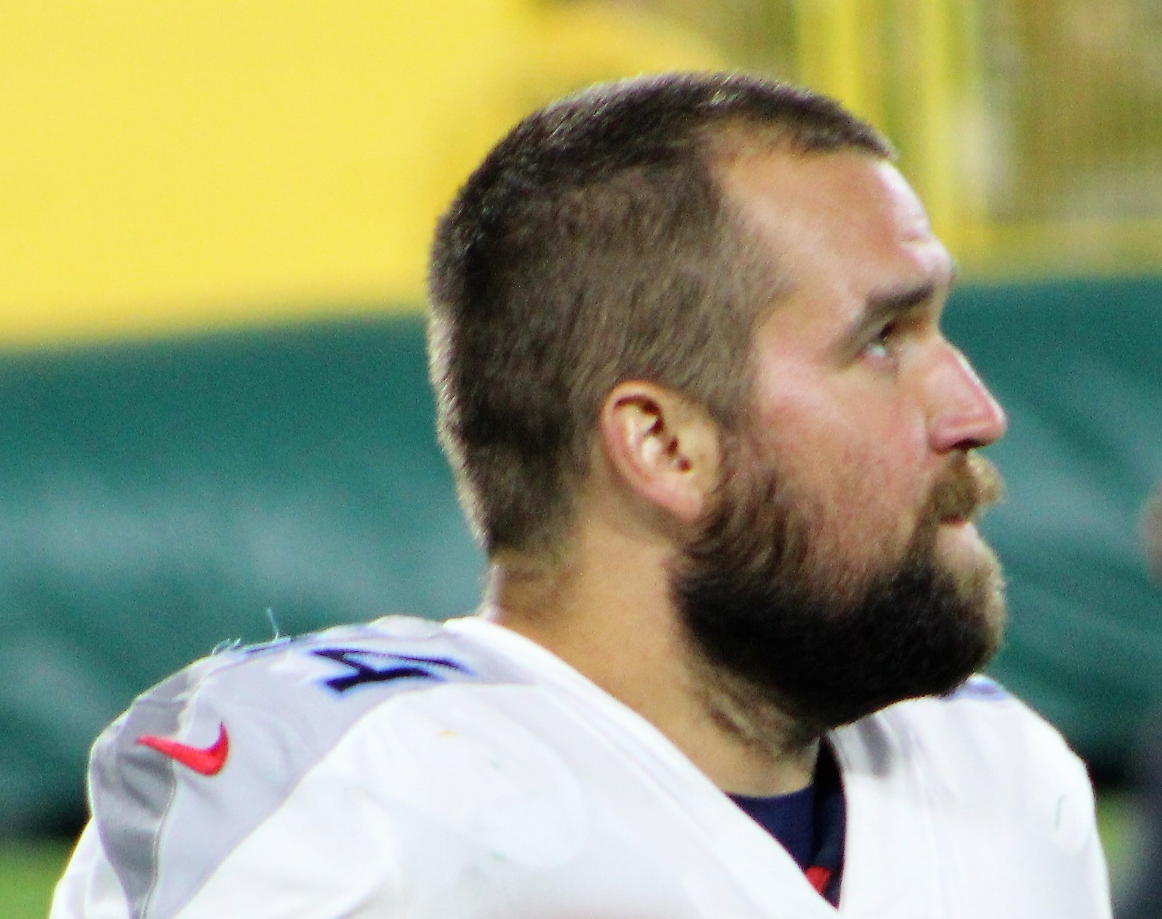 Josh Kline, Tennessee Titans at Green Bay Packers (Preseason), August 9, 2018